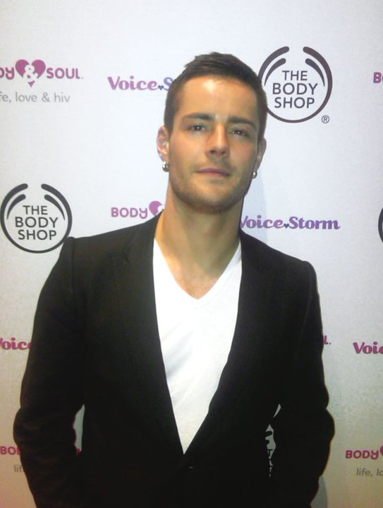 Kristian Johns at the Body Shop's 'Voice Storm' event, 2010